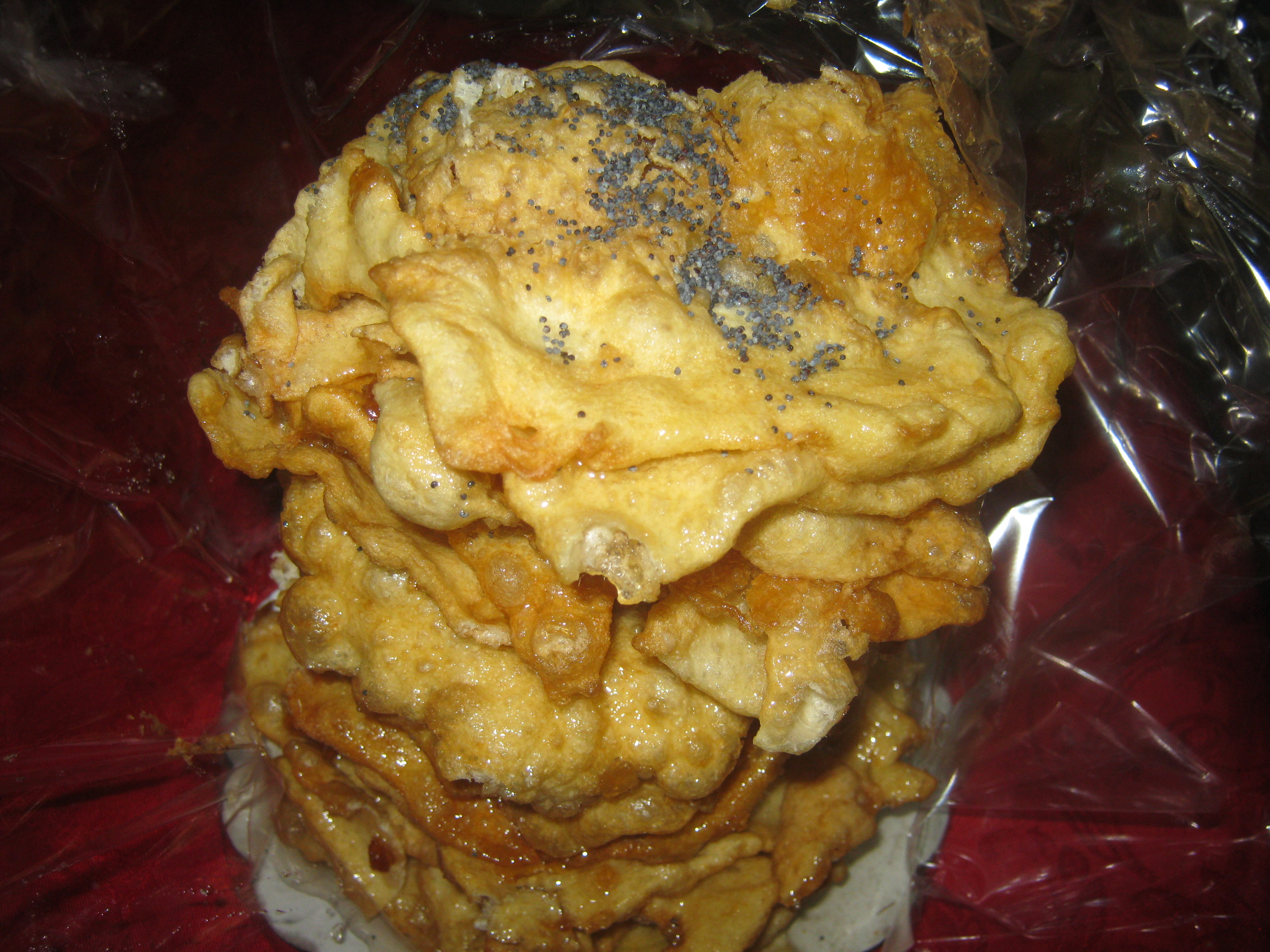 Lithuanian cake "Skruzdelynas". Made of angel wings, honey and poppy seeds